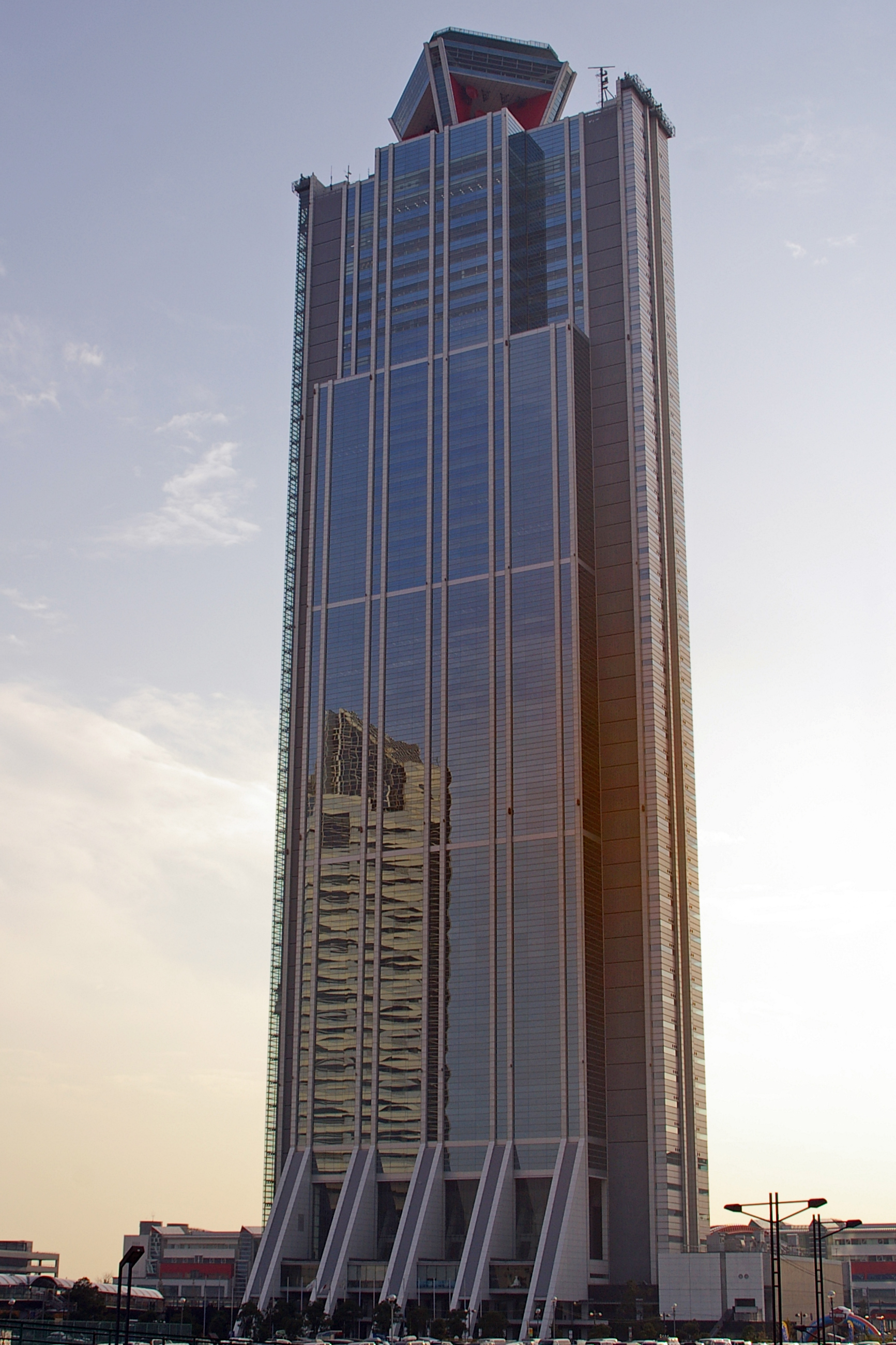 Photograph of Osaka World Trade Center Building, aka WTC Cosmo Tower, in Suminoe-ku, Osaka, Osaka Prefecture, Japan.